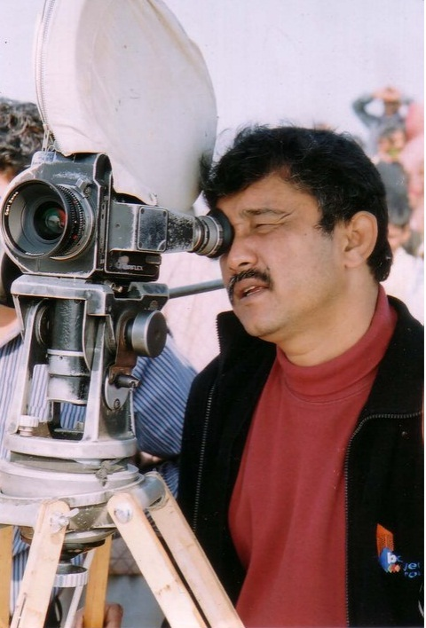 Abu Sayeed